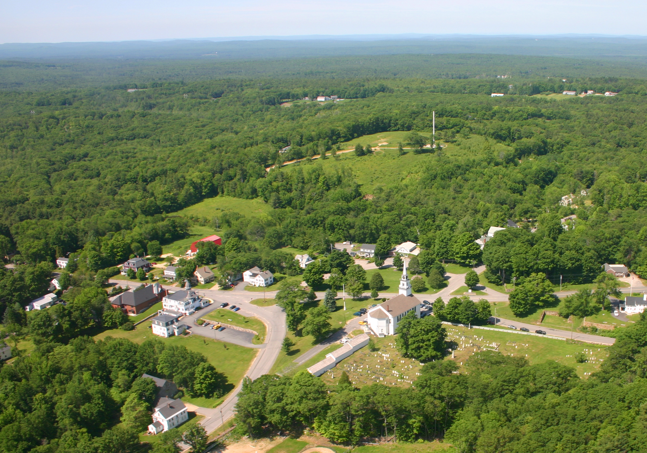 An aerial photo of Rindge center taken by George Carmichael, June 13, 2004.